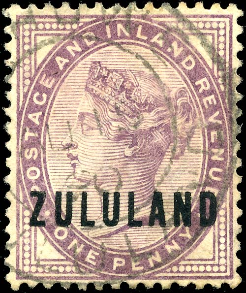 Zululand 1p stamp of 1888